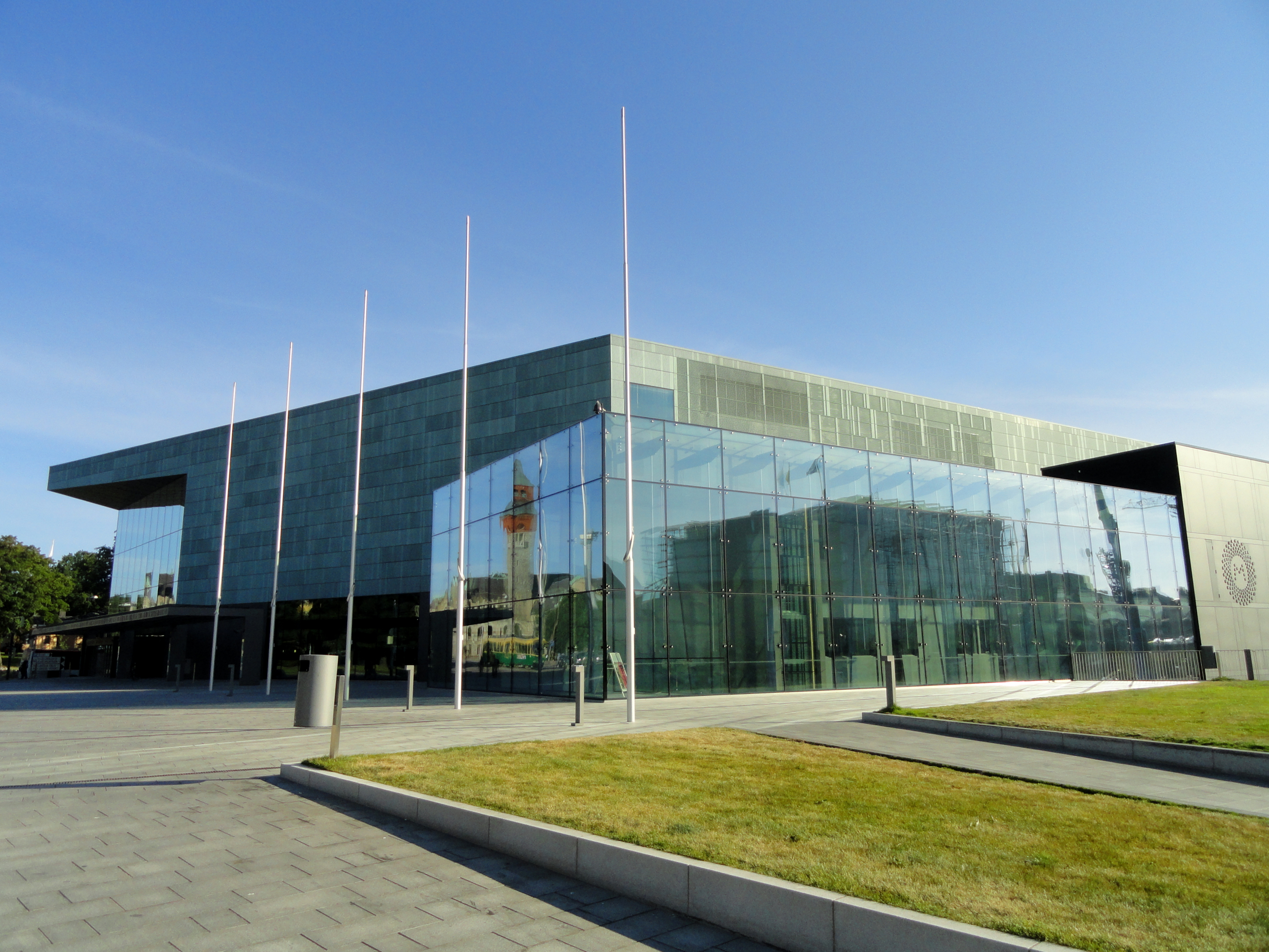 Helsinki Music Centre, Helsinki, Finland.